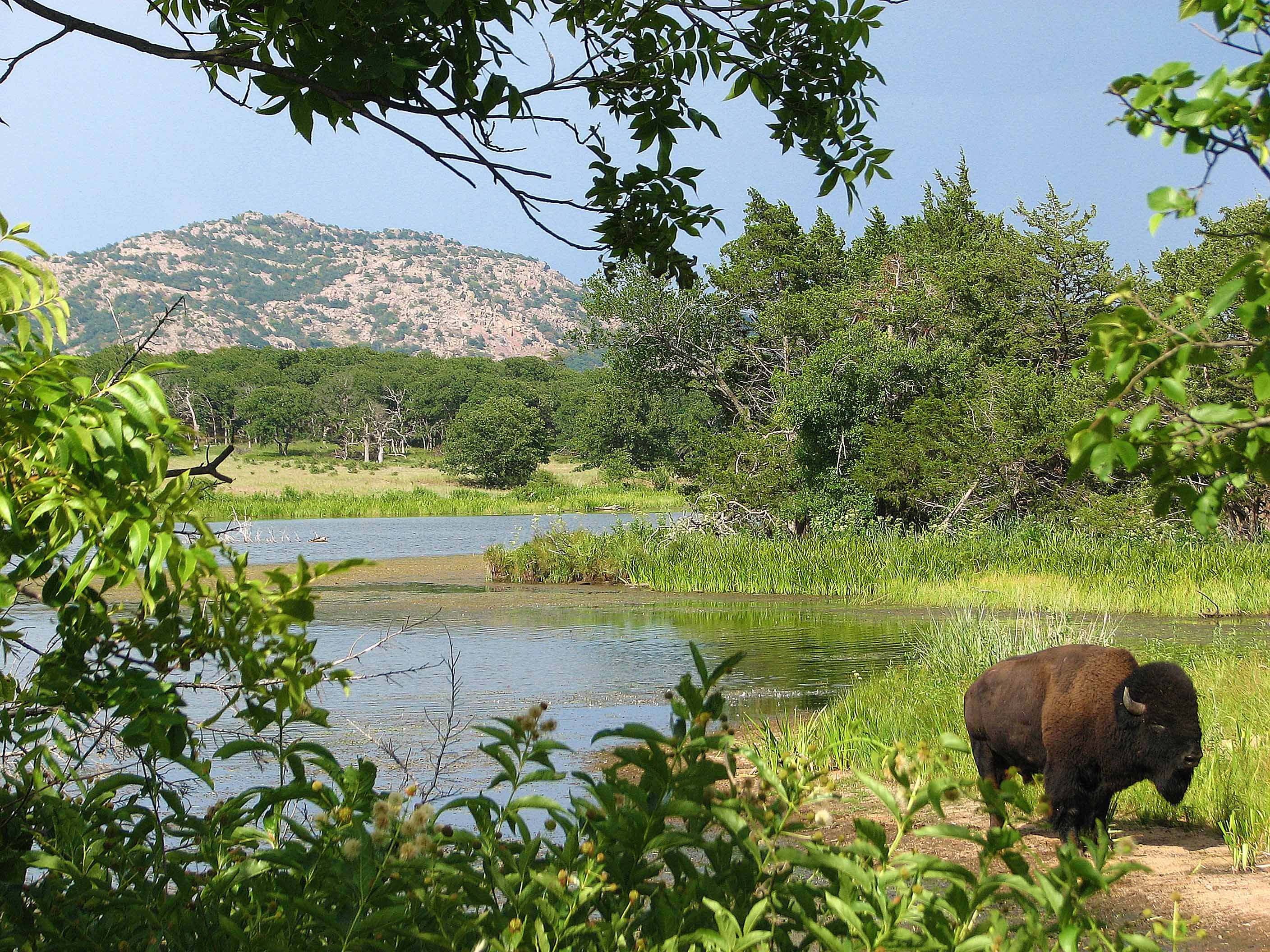 Buffalo and French Lake, Wichita Mountains, Oklahoma